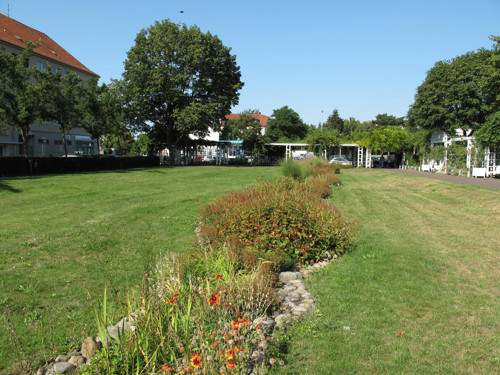 „Grünanlage am Ziegelhof“ (green space) with a „Blumenbach“ (german for: flower stream) over the in this part piped Bullengraben. The Bullengraben (german for: bullditch) is a drainage channel to the river Havel in the localities Staaken, Wilhelmstadt and Spandau in the borough Berlin-Spandau, Germany. In 2007 there was opened the green space Bullengraben (german: „Grünzug Bullengraben“) along the 4,5 kilometre long ditch.